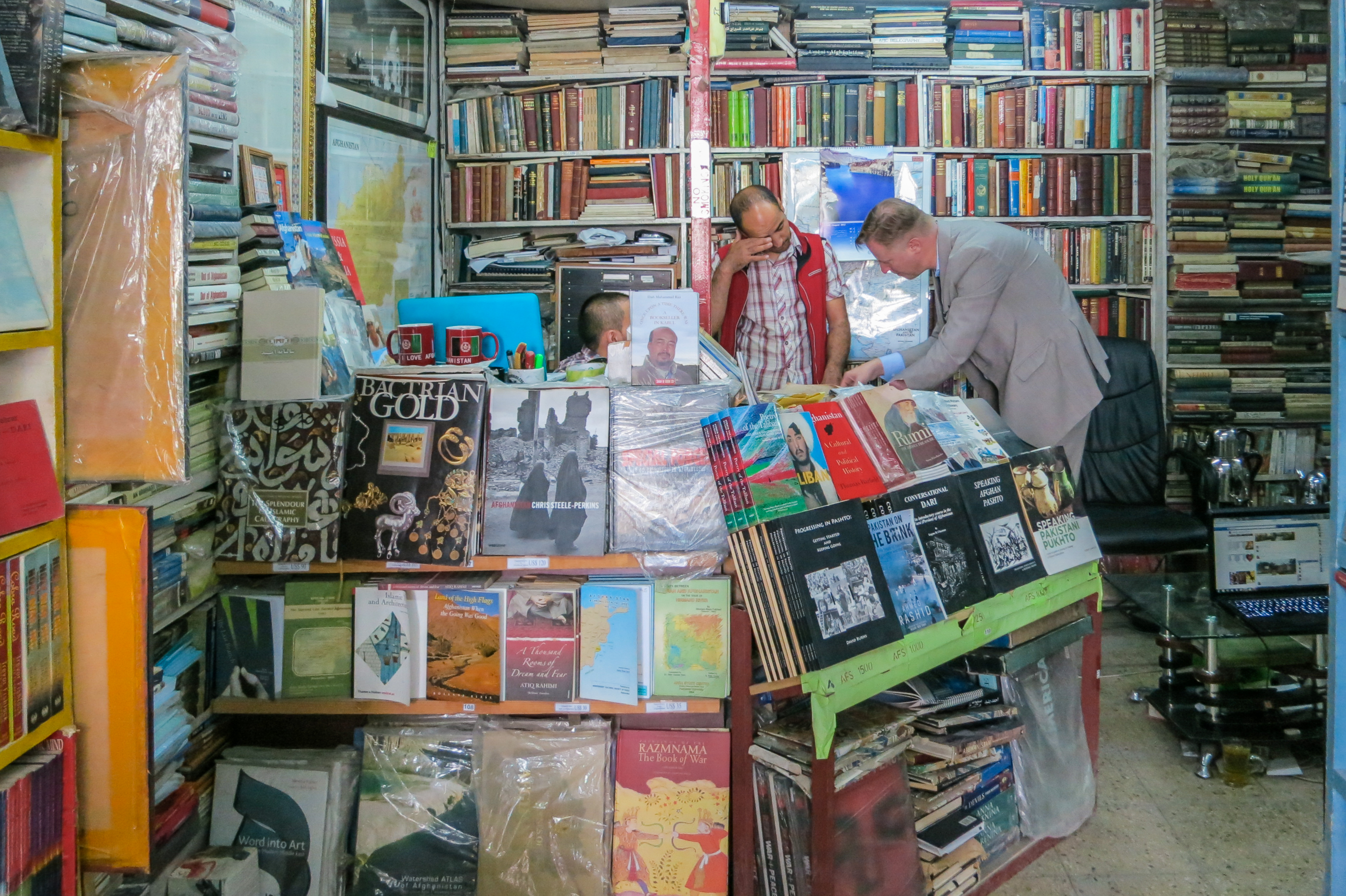 The Shah Mohammad Bookstore in Kabul, on which The Bookseller of Kabul is based